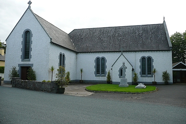 St. Patrick's church, Islandeady, near to Islandeady, Ireland. At the south end of the village, an unusual L-shape. The cemetery is across Islandeady Lough in the next square M0887.